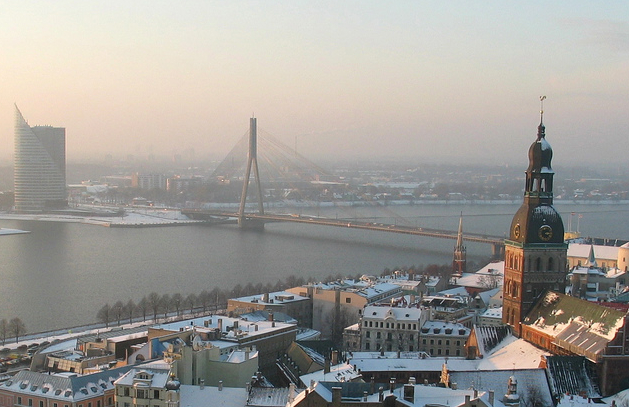 View from Saint Peter's.